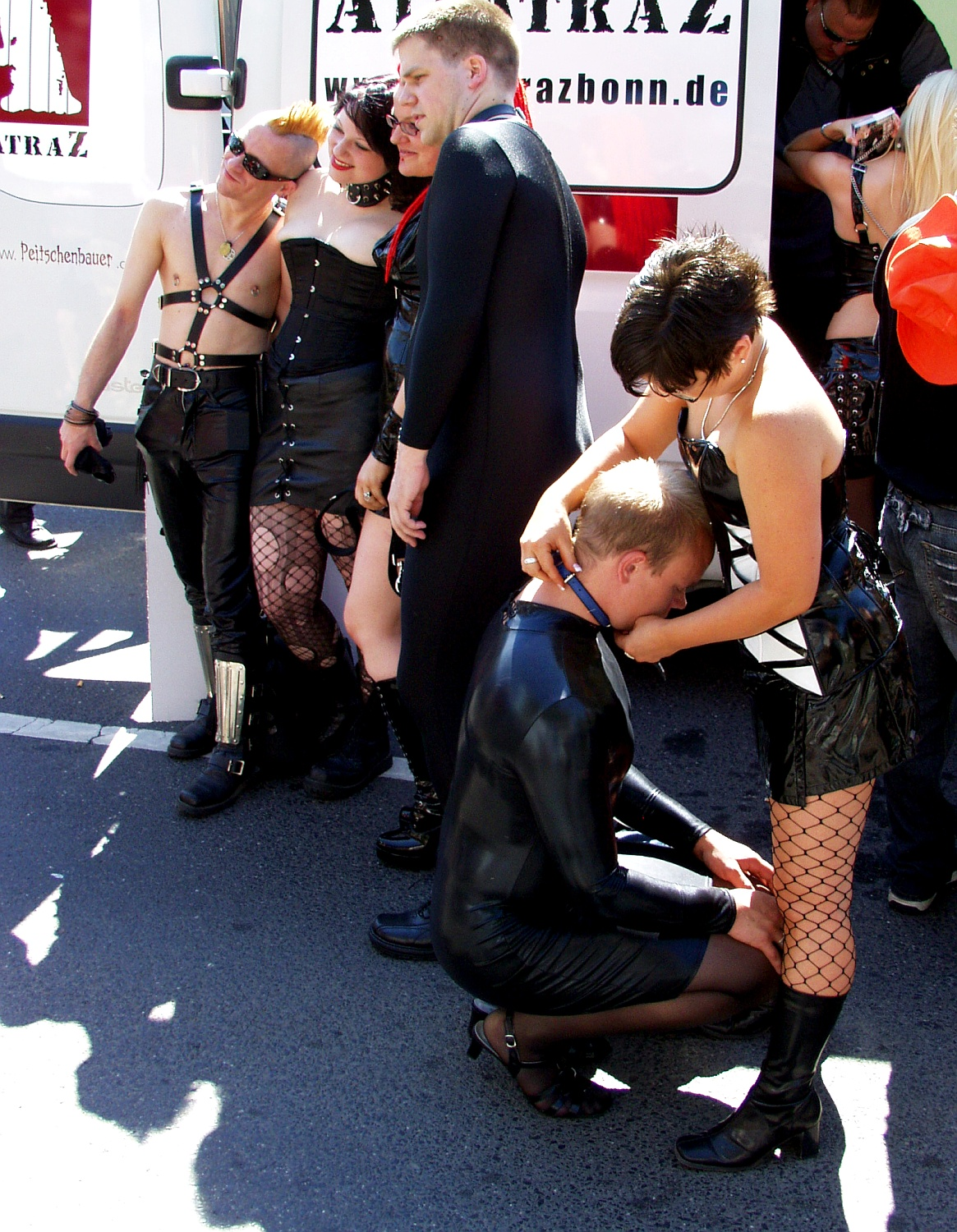 Members of the Christopher Street Day demonstration - ColognePride 2006